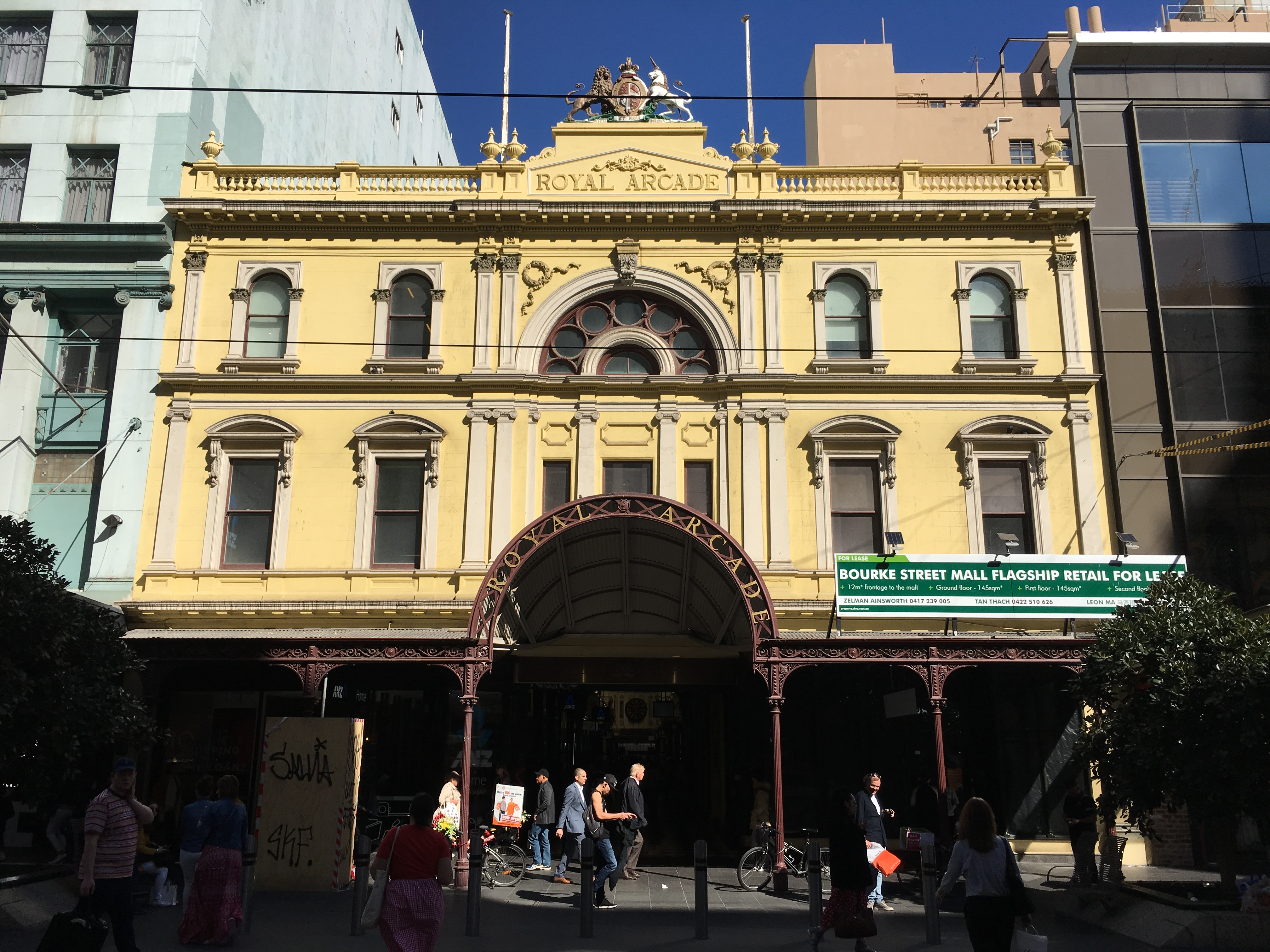 Royal Arcade Melbourne, 1870, facade